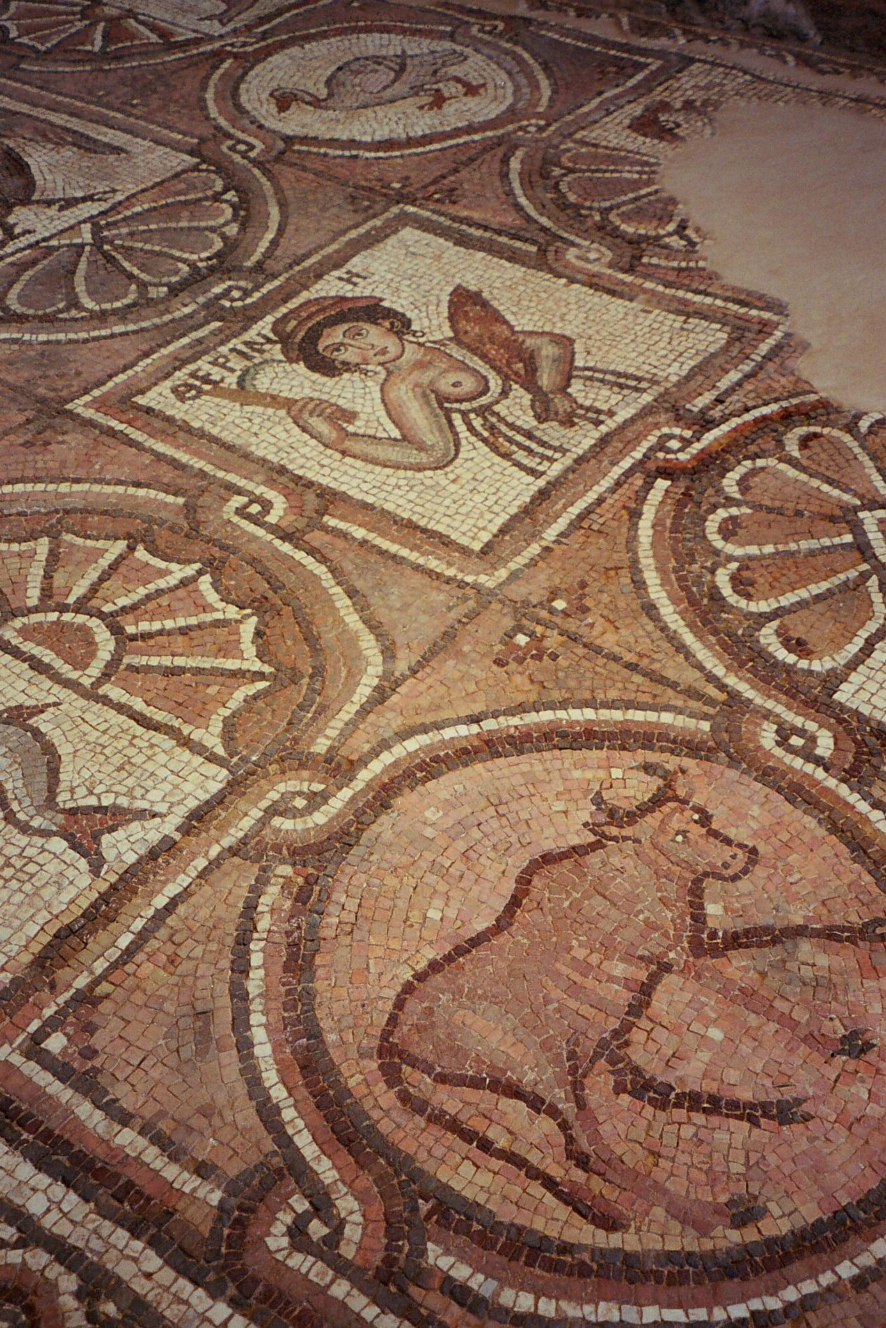 Mosaics from the former byzantine church of Petra, Jordan Mosaïques de l'ancienne église byzantine de Pétra, Jordanie Other versions: Image:Petra Church.jpg, Image:Petra-Mosaic.jpg, Image:Petra-Mosaic-2-2.jpg